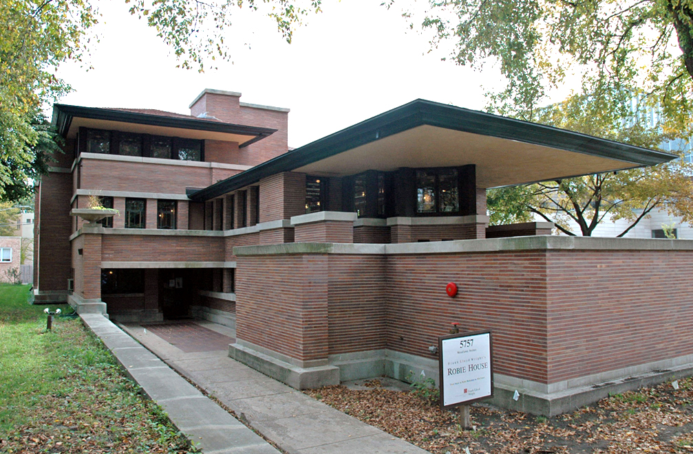 Frank Lloyd Wright's Robie House on the campus of the University of Chicago in Chicago, Illinois.